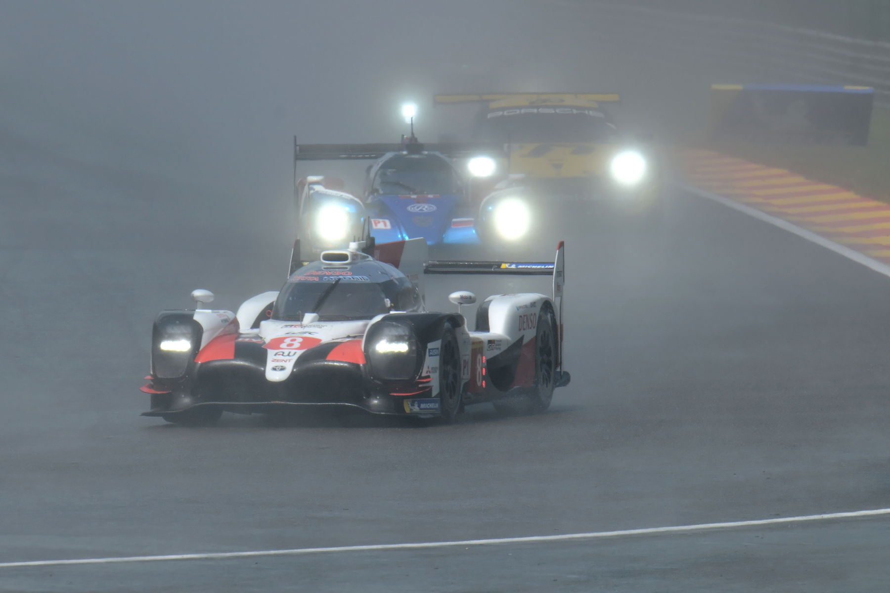 Toyota Gazoo Racing's Toyota TS050 Hybrid Driven by Fernando Alonso, Sébastien Buemi and Kazuki Nakajima at the 2019 6 Hours of Spa